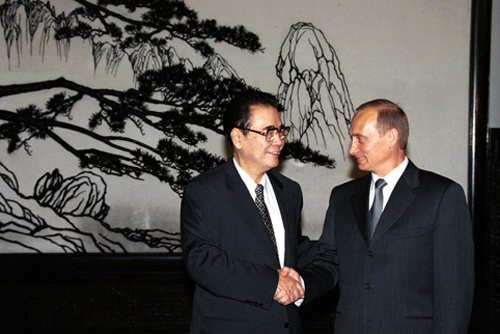 THE PEOPLE'S ASSEMBLY, BEIJING. President Putin with Li Peng, Chairman of the Standing Committee of the National People's Congress of the People's Republic of China.